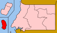 Map of Equatorial Guinea showing Annobón province.